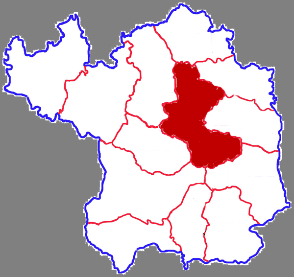 Location of Baota district in Yan'an city, China